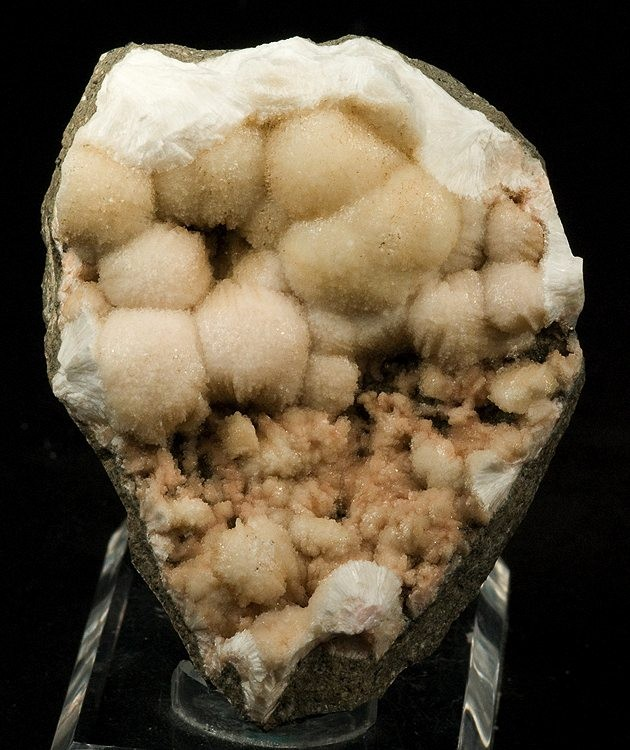 Thomsonite-Ca Locality: Hammerunterwiesenthal, Oberwiesenthal, Erzgebirge, Saxony, Germany (Locality at ) Size: 7.8 x 6.0 x 2.6 cm. A very rich specimen of this rare zeolite species, which seldom crystallizes in zeolite deposits to the same degree as its more common cousins. This specimen is a rich example, from a classic old locality.